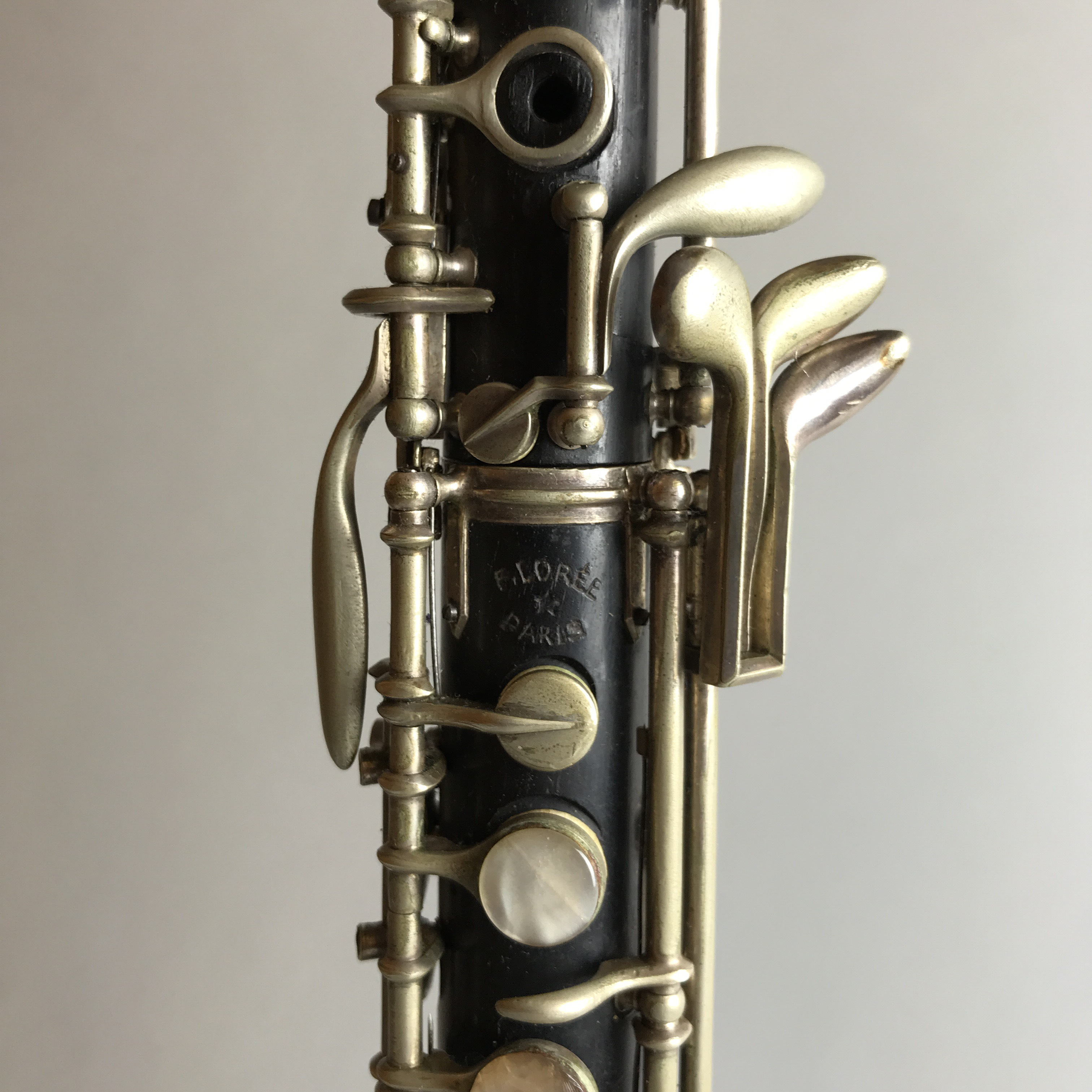 Fragment of F. Lorée's oboe.